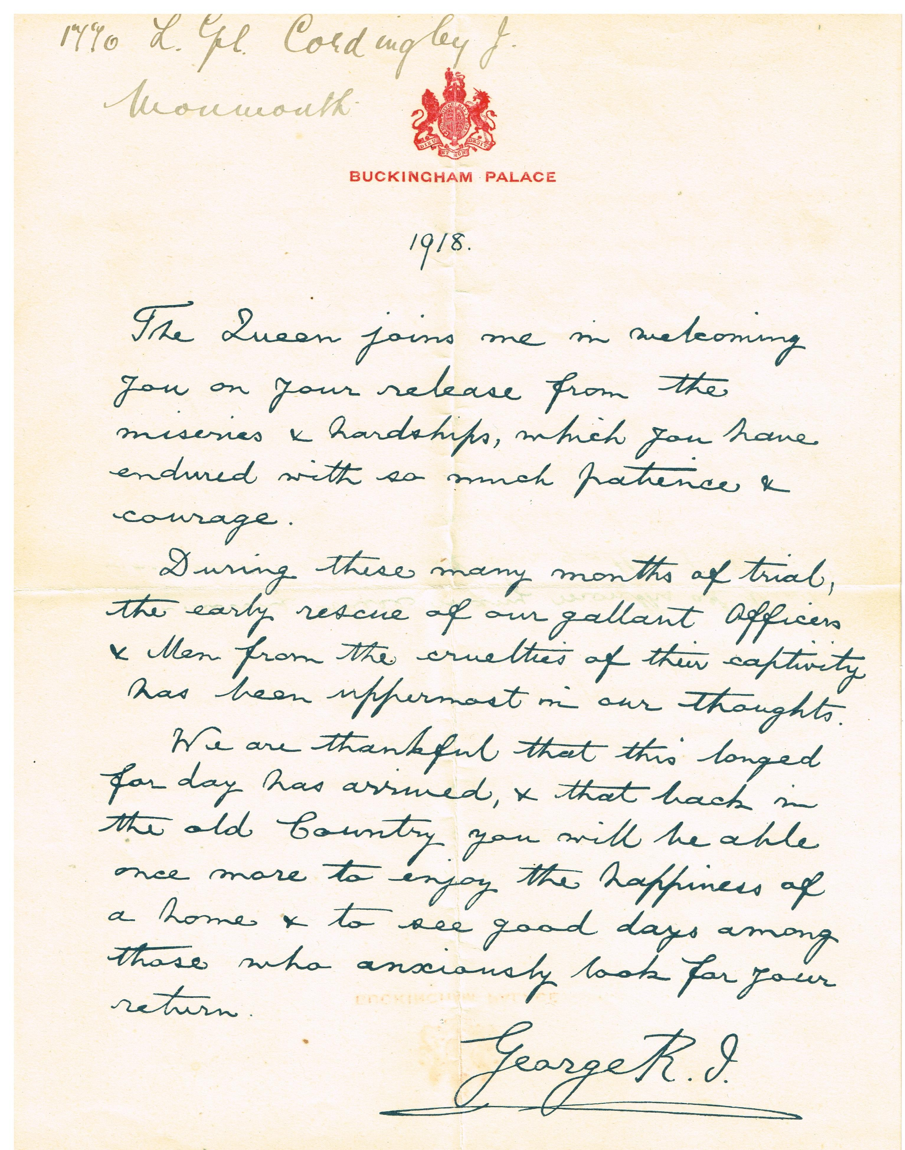 Hand written Letter of Recognition for World War 1 POW from King George V 1918 sent to Lance Corporal James Cordingley; facsimile mass-produced by lithography and individually addressed